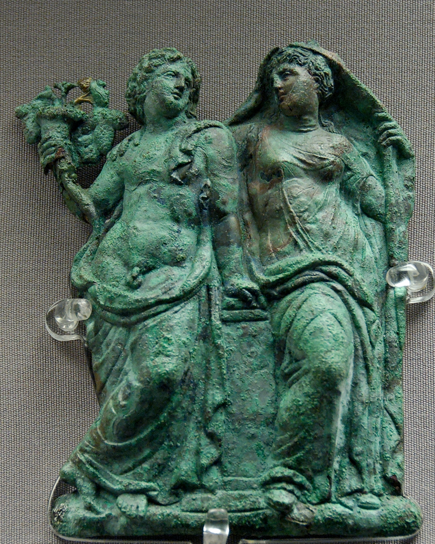 Dionysos (left) wearing a wreath and a cornucopia with Ariadne (right) holding back her veil. Bronze repoussé relief from a hydria, ca. 325–300 BC. From Chalki, near Rhodes.